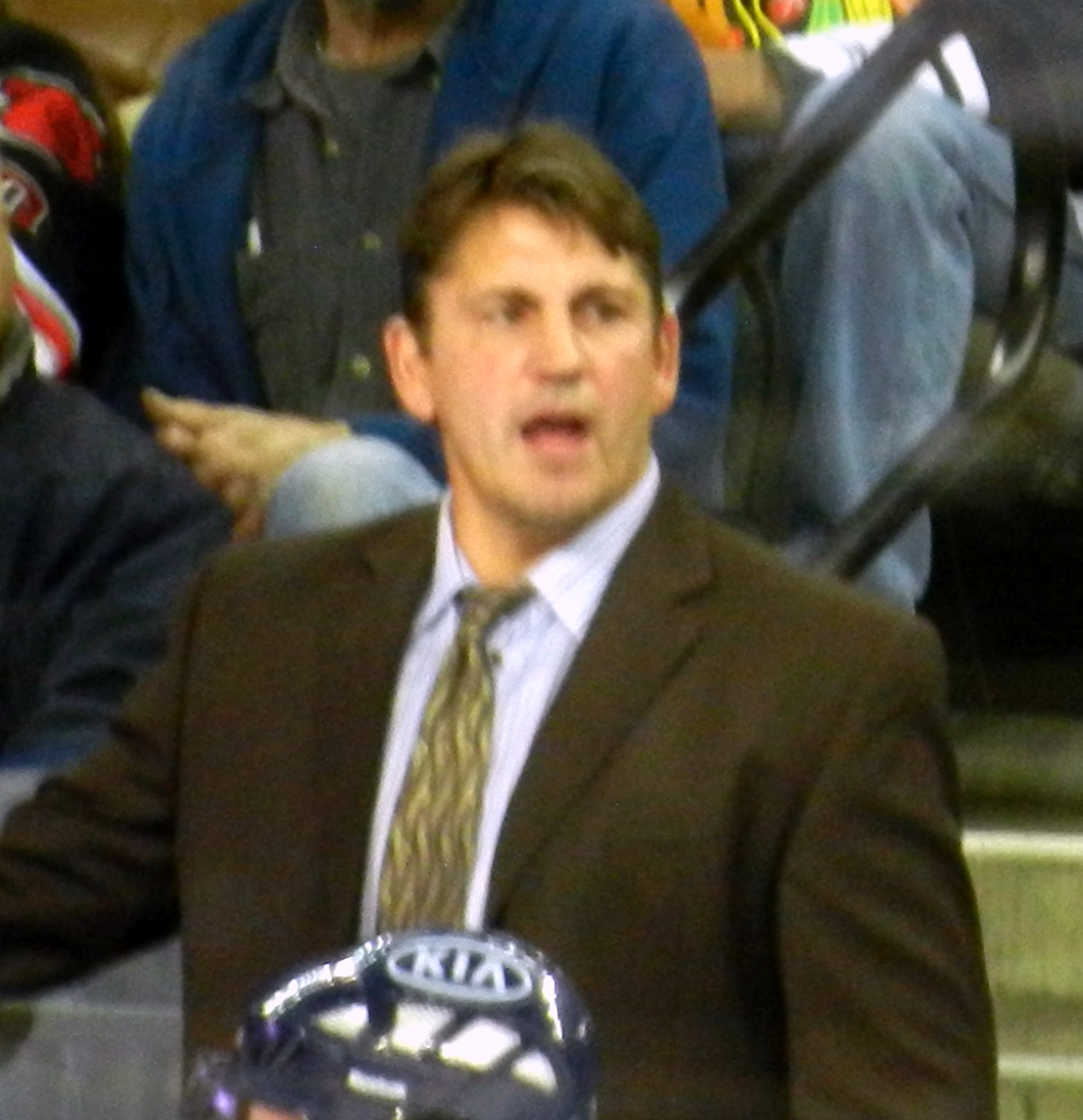 Steve Martinson head coach of the Chicago Express during the 2011-12 ECHL season.